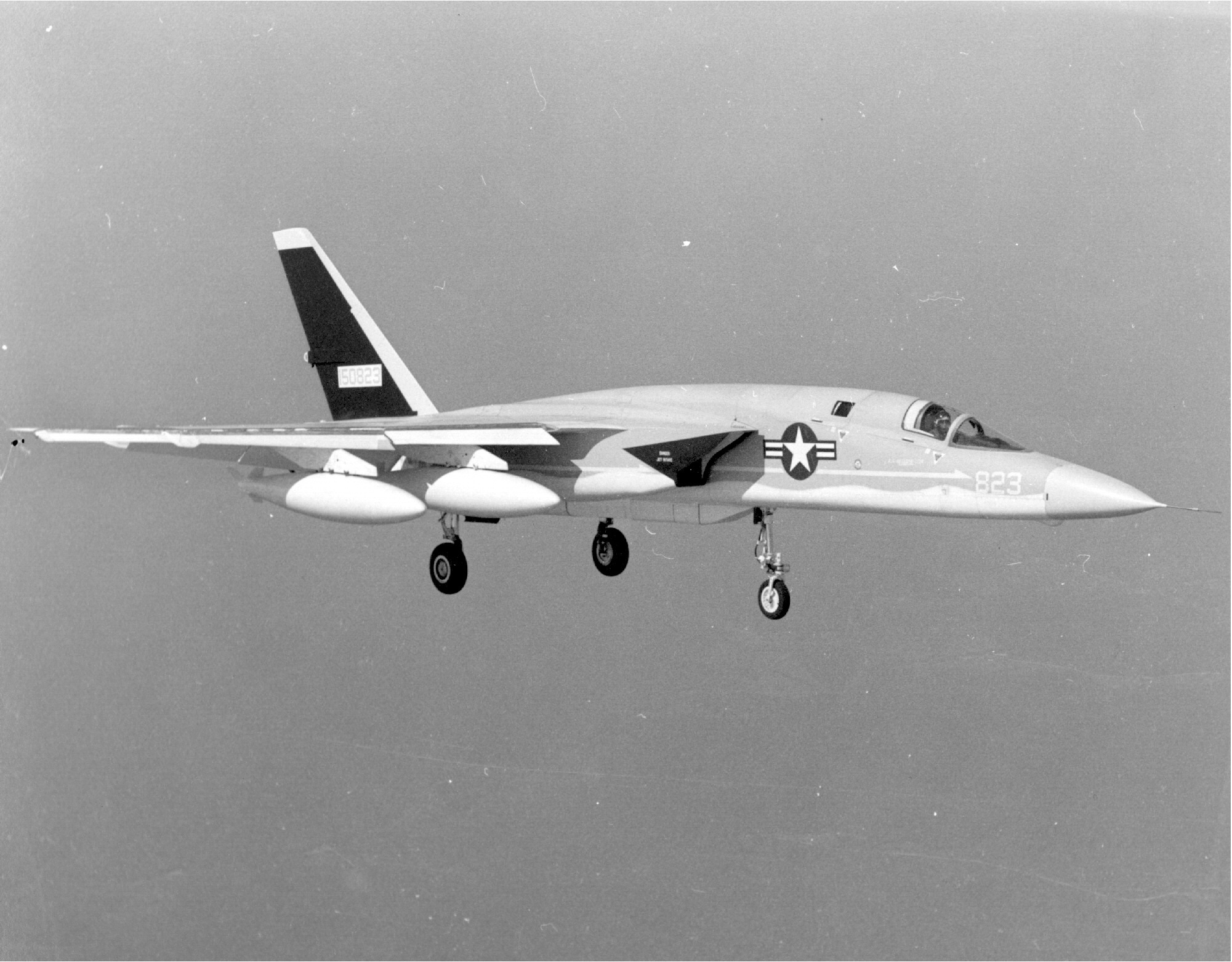 The 18th production U.S. Navy North American A3J-3P (RA-5C) Vigilante (BuNo 150823) in flight with the landing gear lowered.